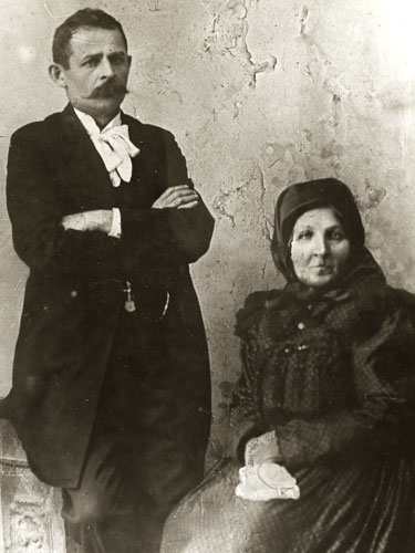 Pista & Mother